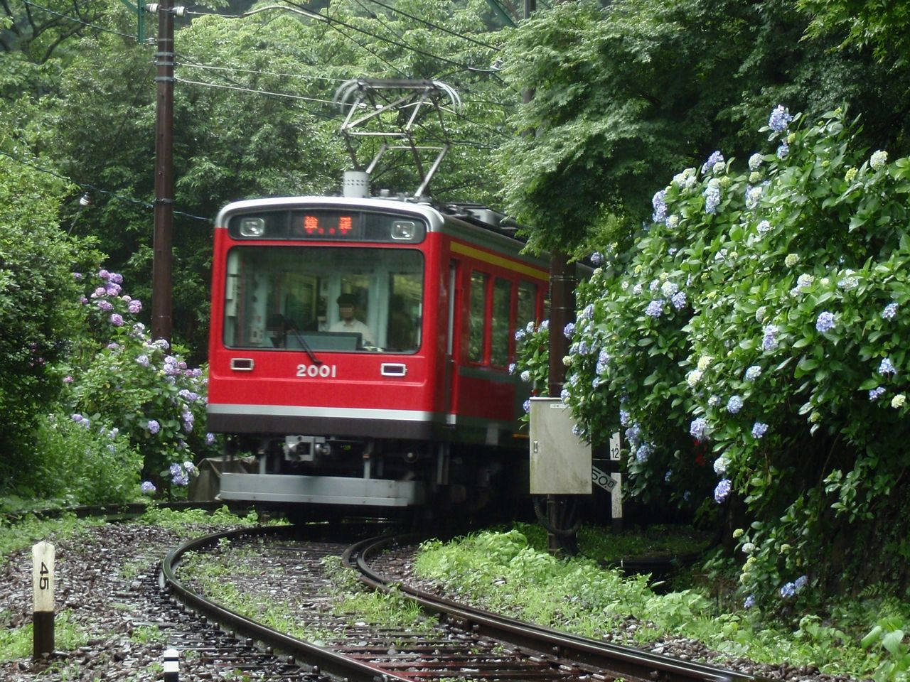 Hakone Tozan Railway Type 2000 No.2001. The hydrangea flower is seen from June through July the railway track sideward.